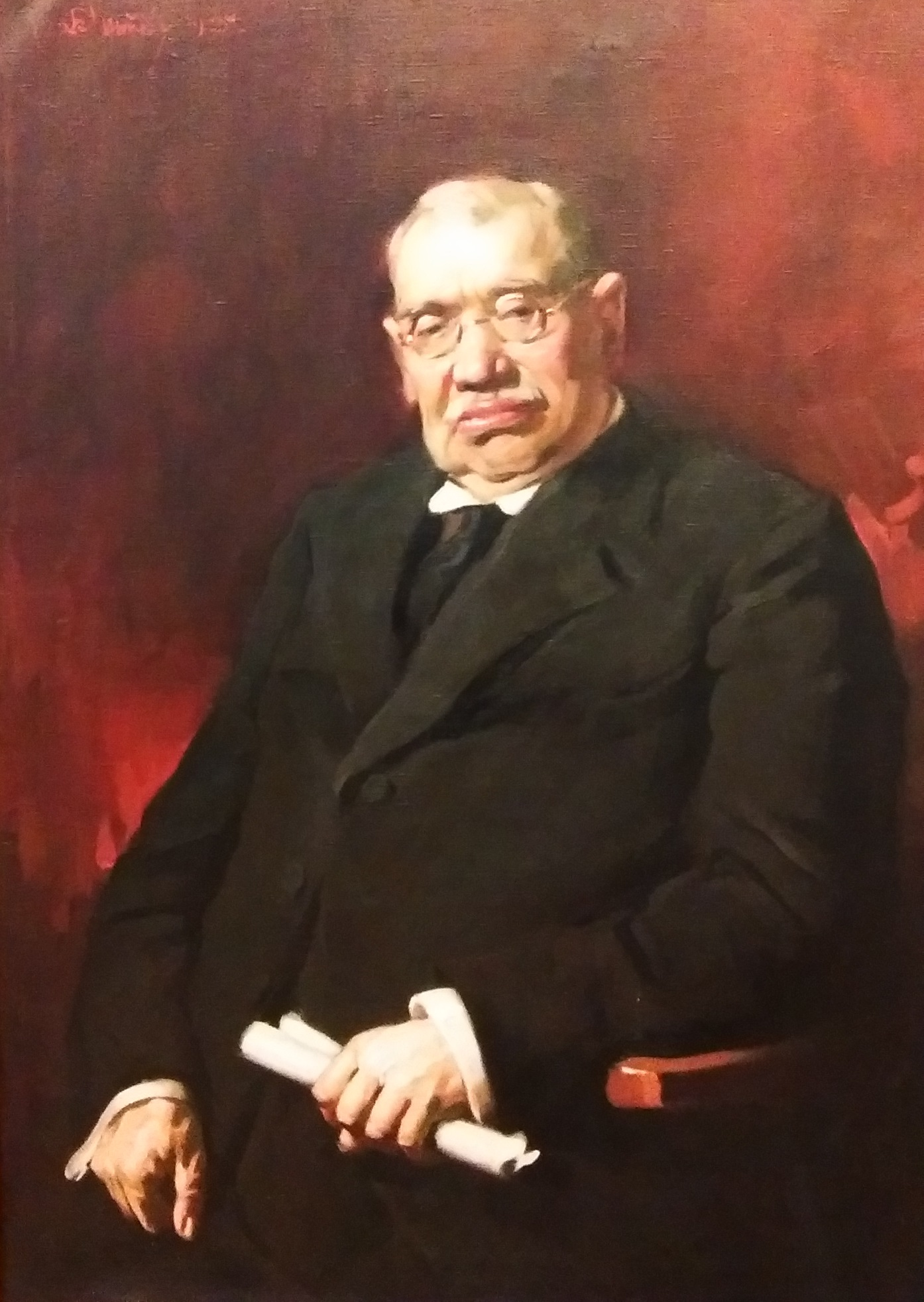 А 1925 portrait to bulgarian publisher Dimitar Mishev